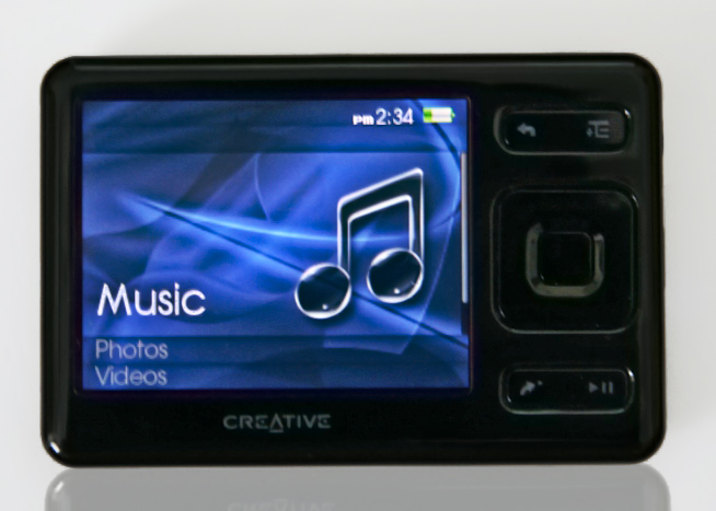 Picture of the Zen mp3 player (with a custom wallpaper)